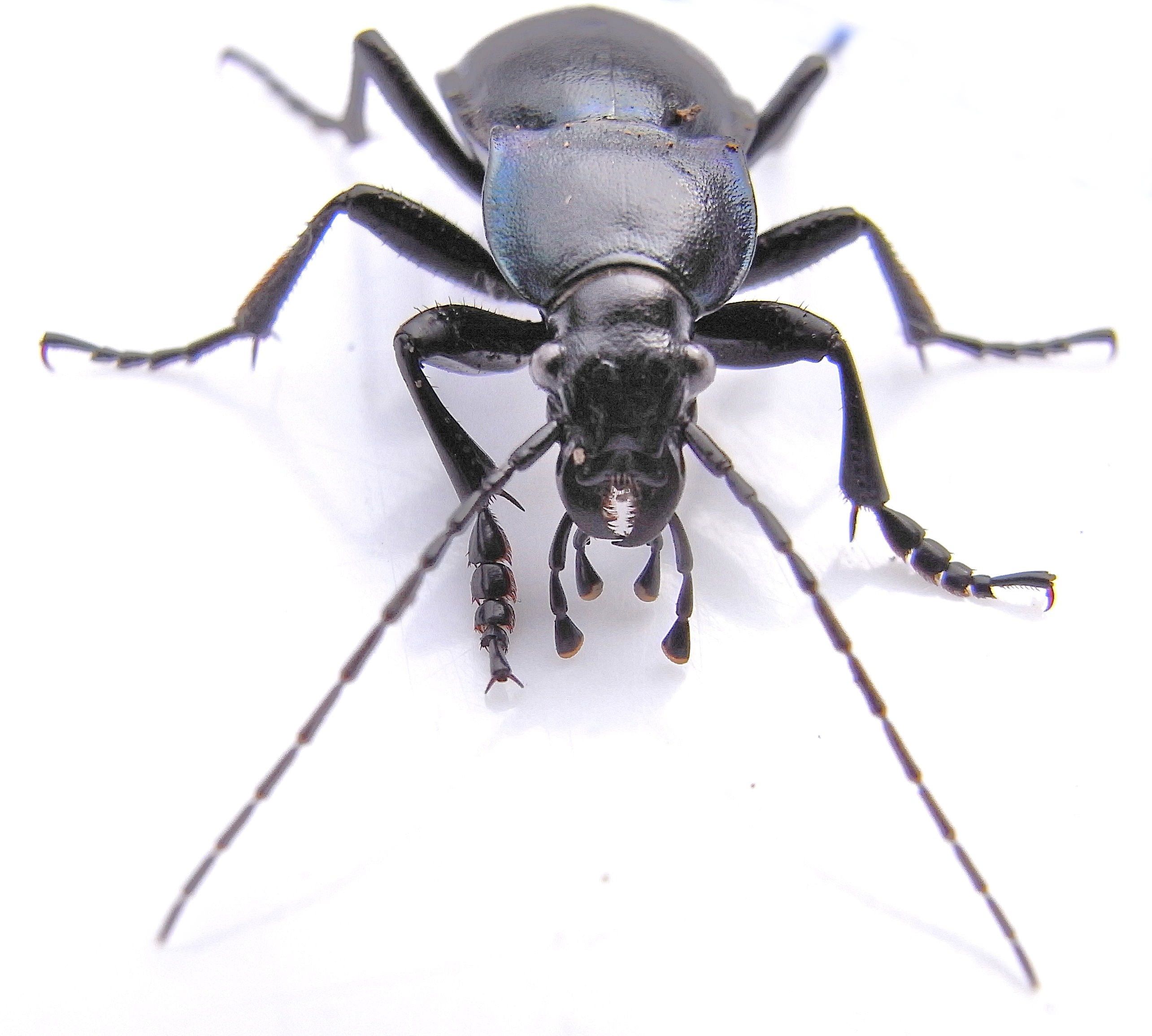 Carabus violaceus from Hungary, Matra-mountains at 2010-06-26 Ricoh R8